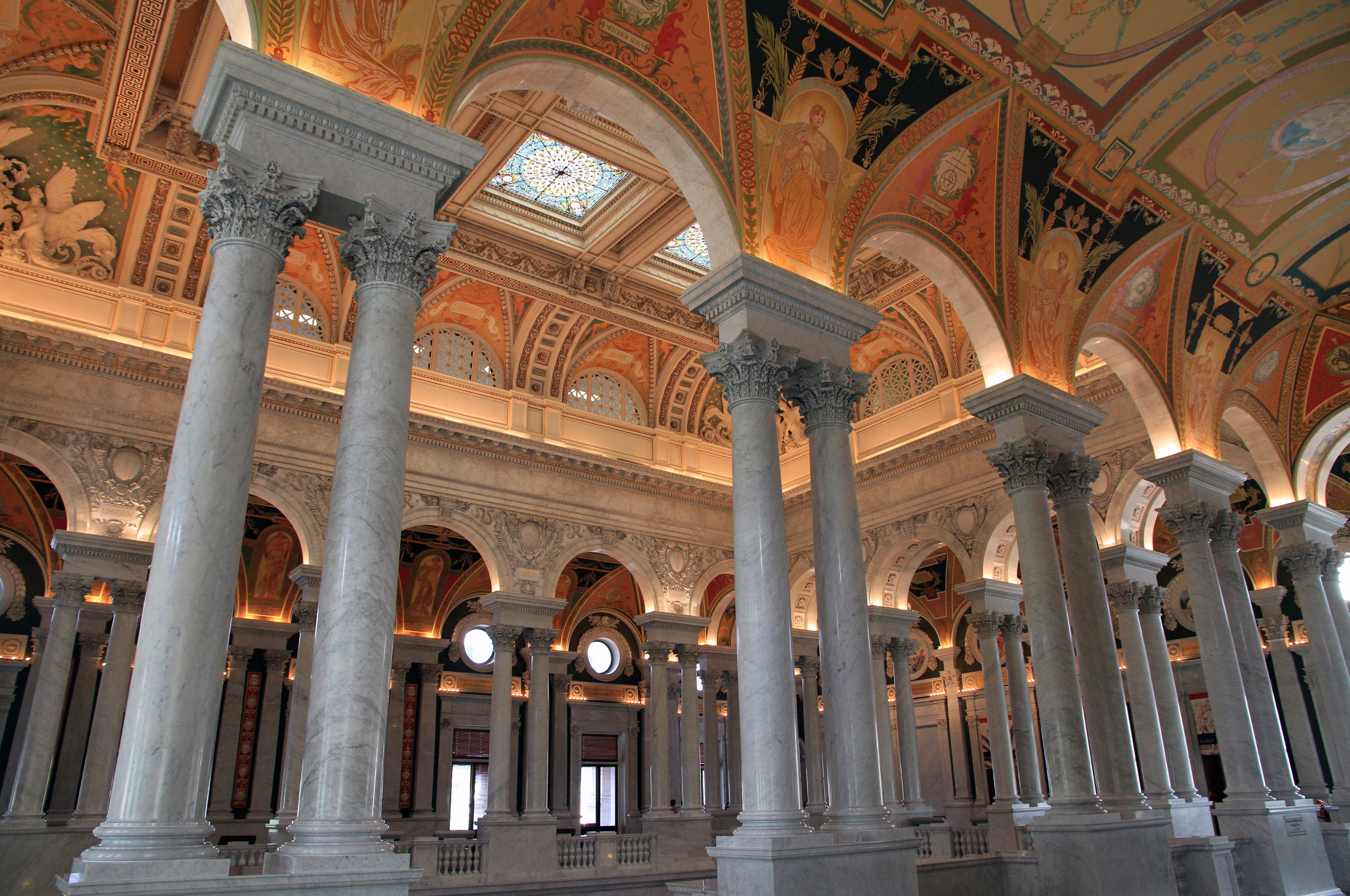 Library of Congress